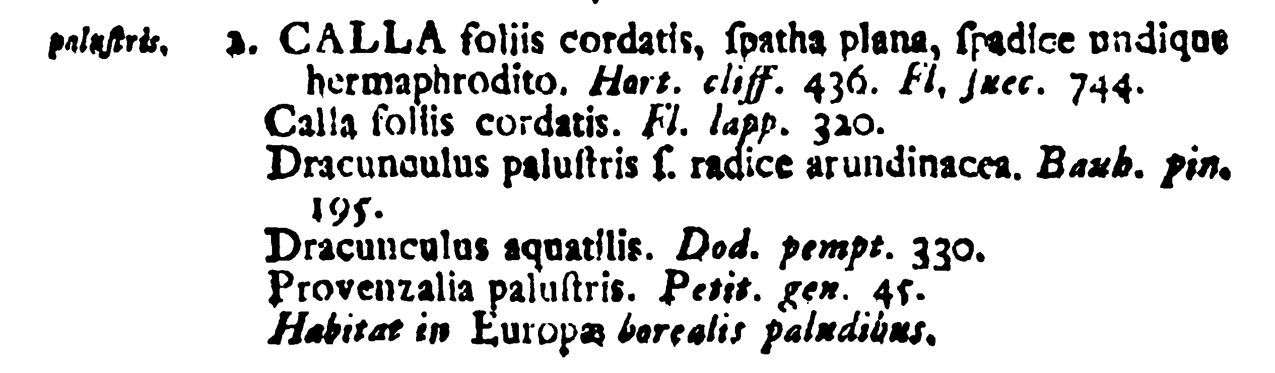 Description of Calla palustris in: Species Plantarum by Carl Linnaeus; 1753, page 968